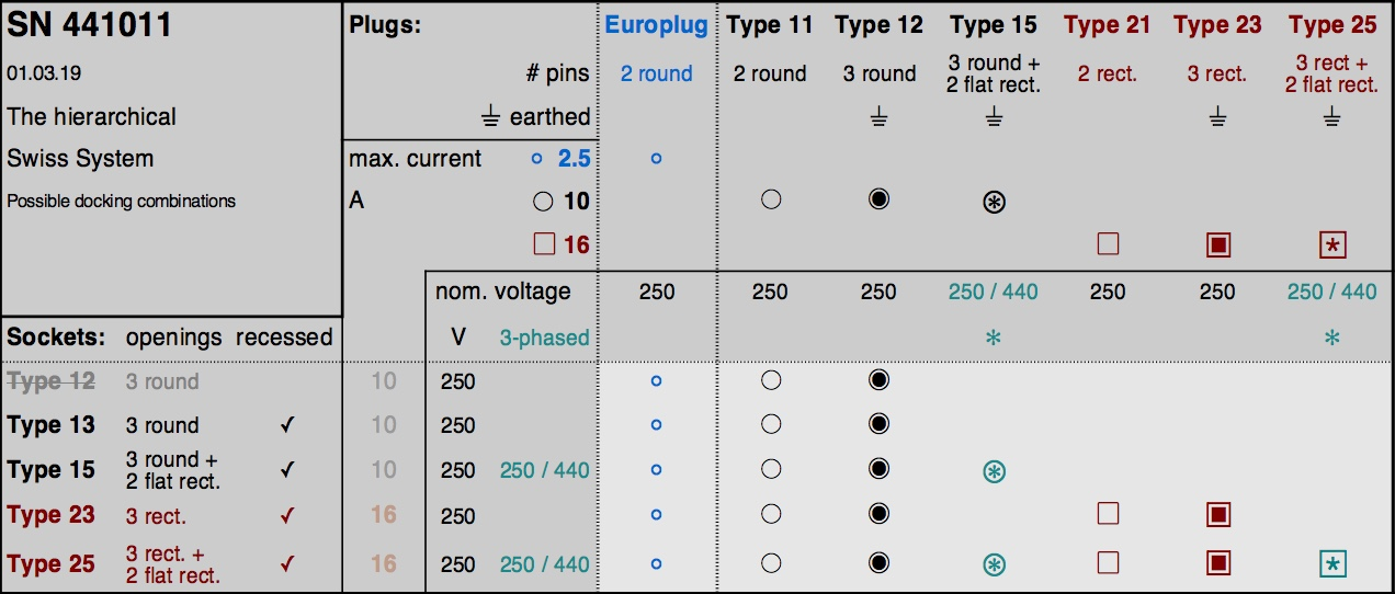 Electrical plugs and sockets, SEV 1011, Swiss system